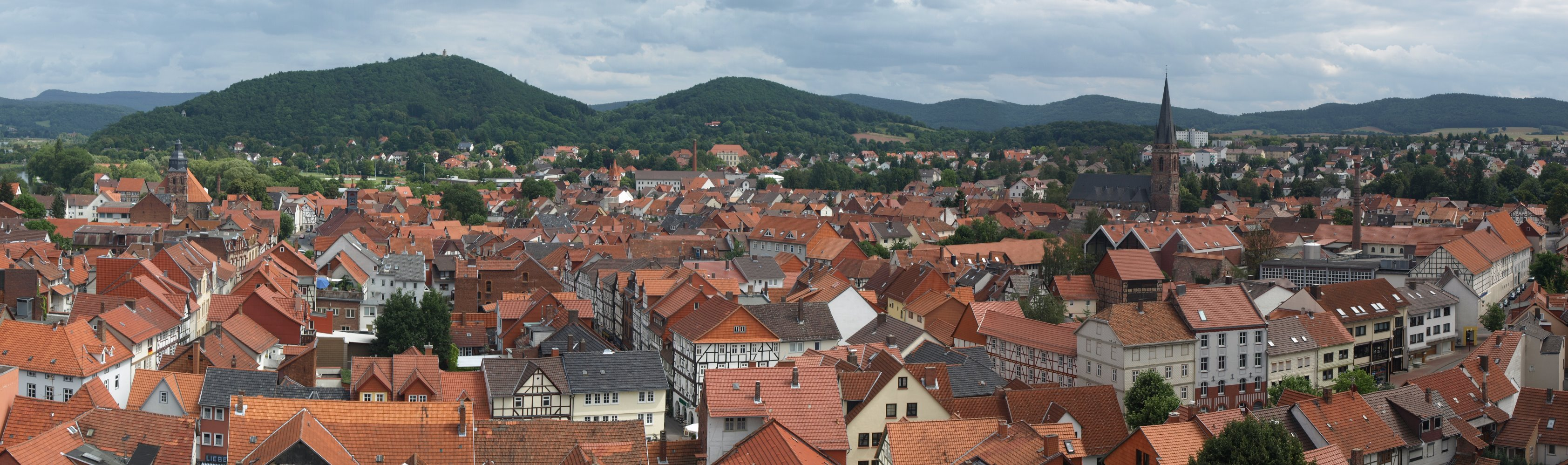 Panoramic view of Old Town Eschwege (unlabeled). Taken from Nikolaiturm (former spire on western edge of the Old Town)